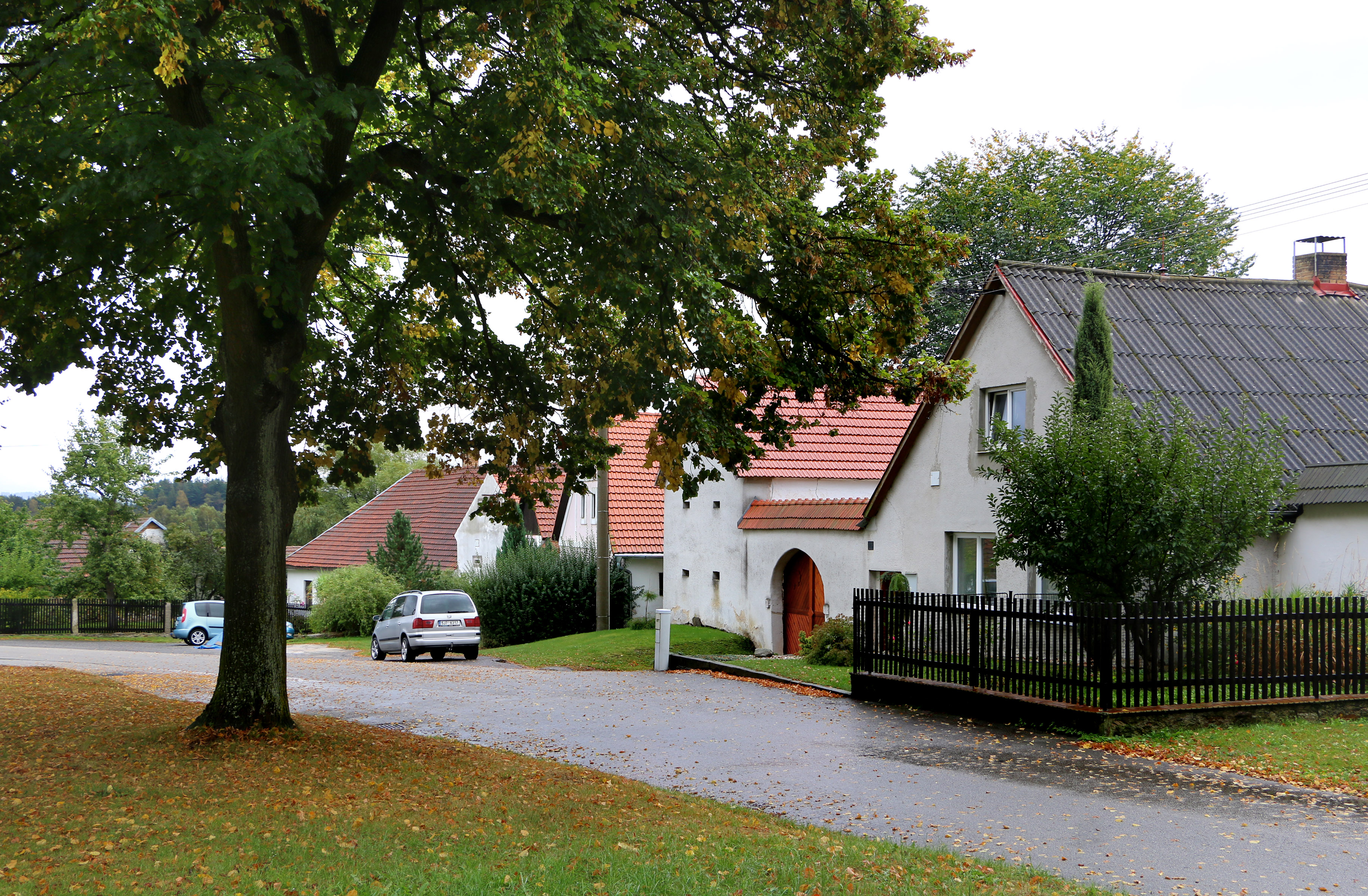 Common in Mezná, Czech Republic.